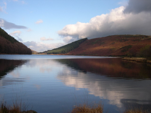 Llyn Geirionydd. Llyn Geirionydd photographed from the south west.